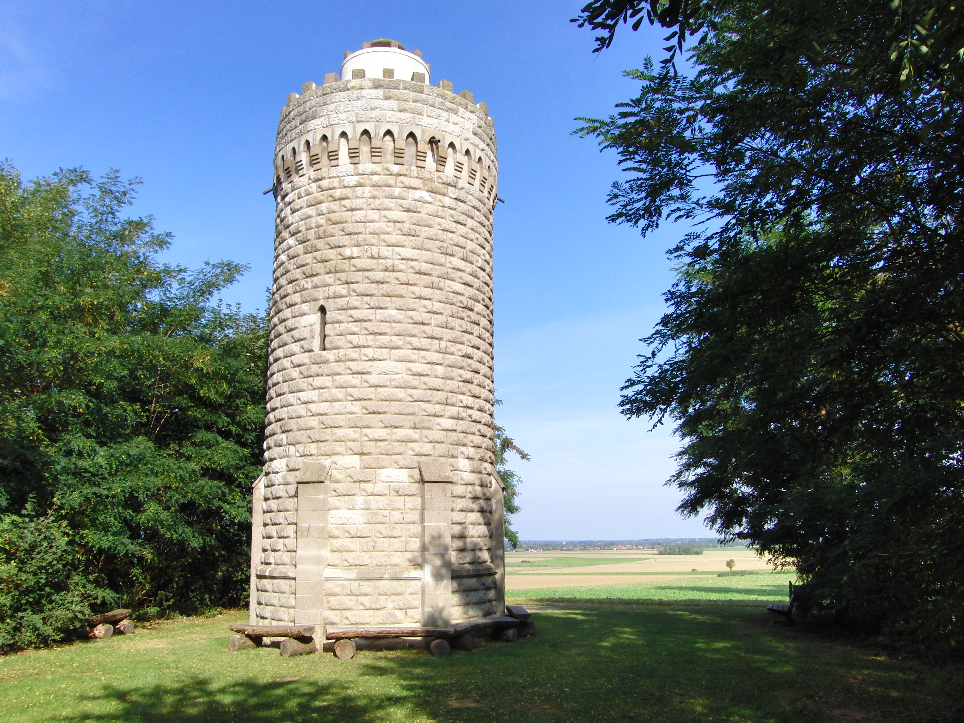 The back side of the Bismarck tower near Oberg (Lahstedt) in Kreis Peine.